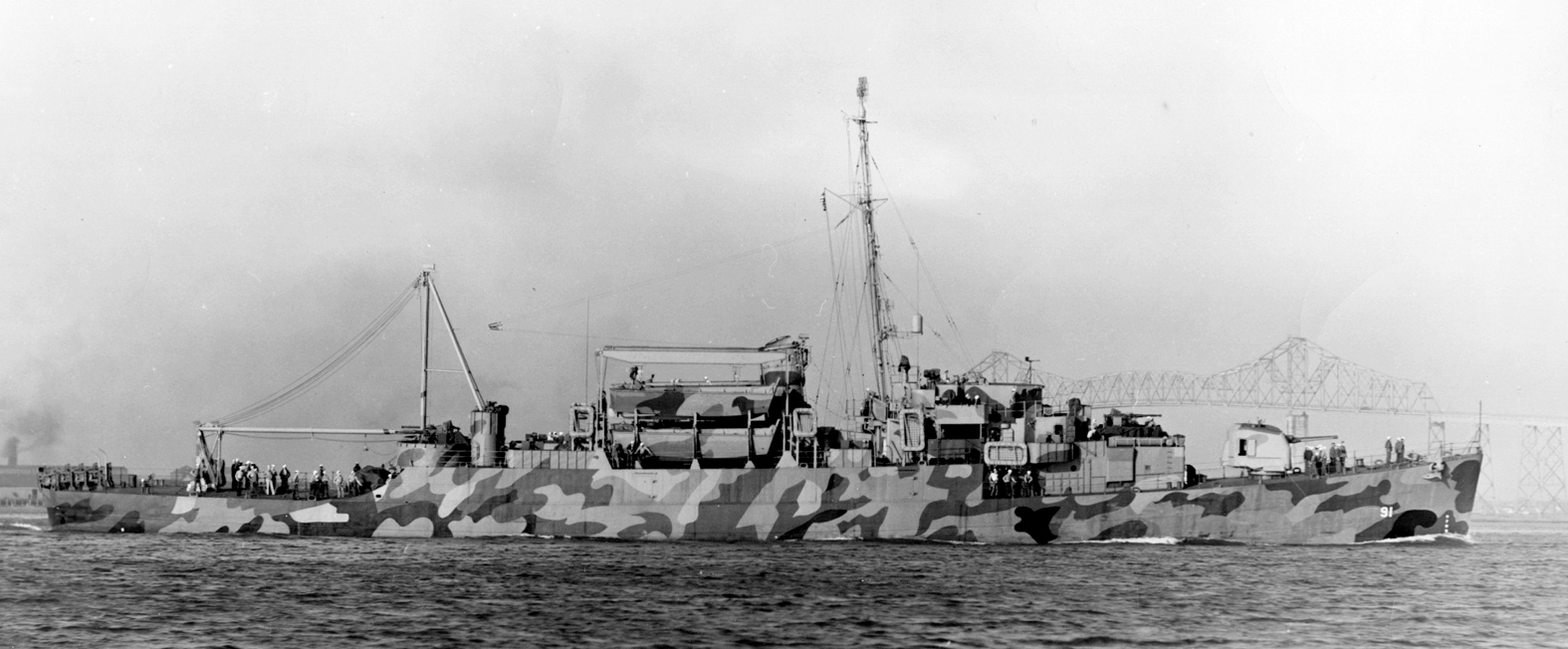 The U.S. Navy high-speed transport USS Kinzer (APD-91) underway off Charleston, South Carolina (USA), on 16 November 1944. She is painted in Camouflage Measure 31, Design 20L.